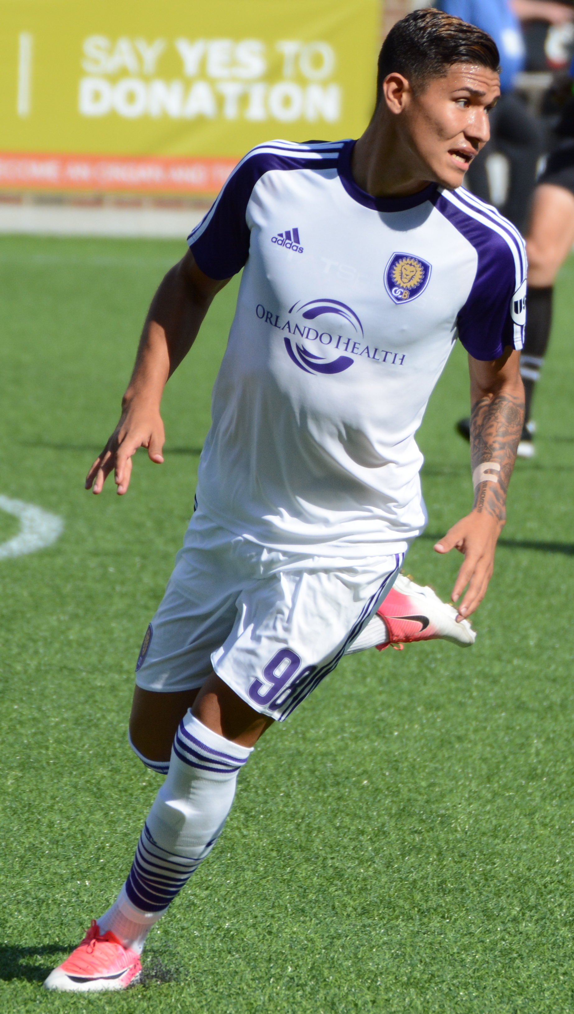 Pierre da Silva Taken during a match between FC Cincinnati and Orlando City B at Nippert Stadium in Cincinnati, USA on May 13, 2017.